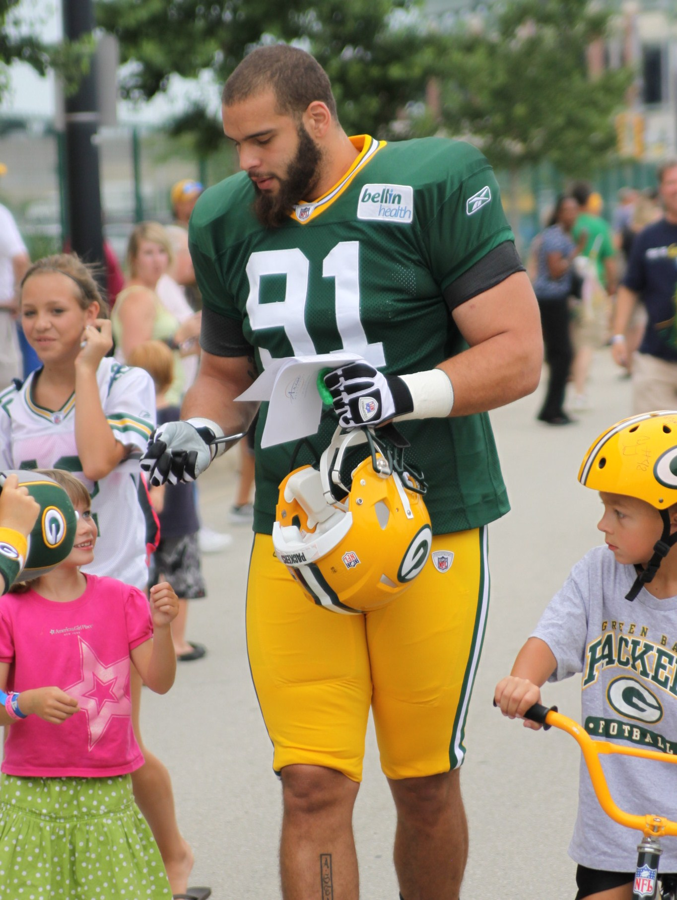 Lawrence Guy signing autographs at the Green Bay Packers pre-season training camp, Green Bay, Wisconsin, August 1, 2011